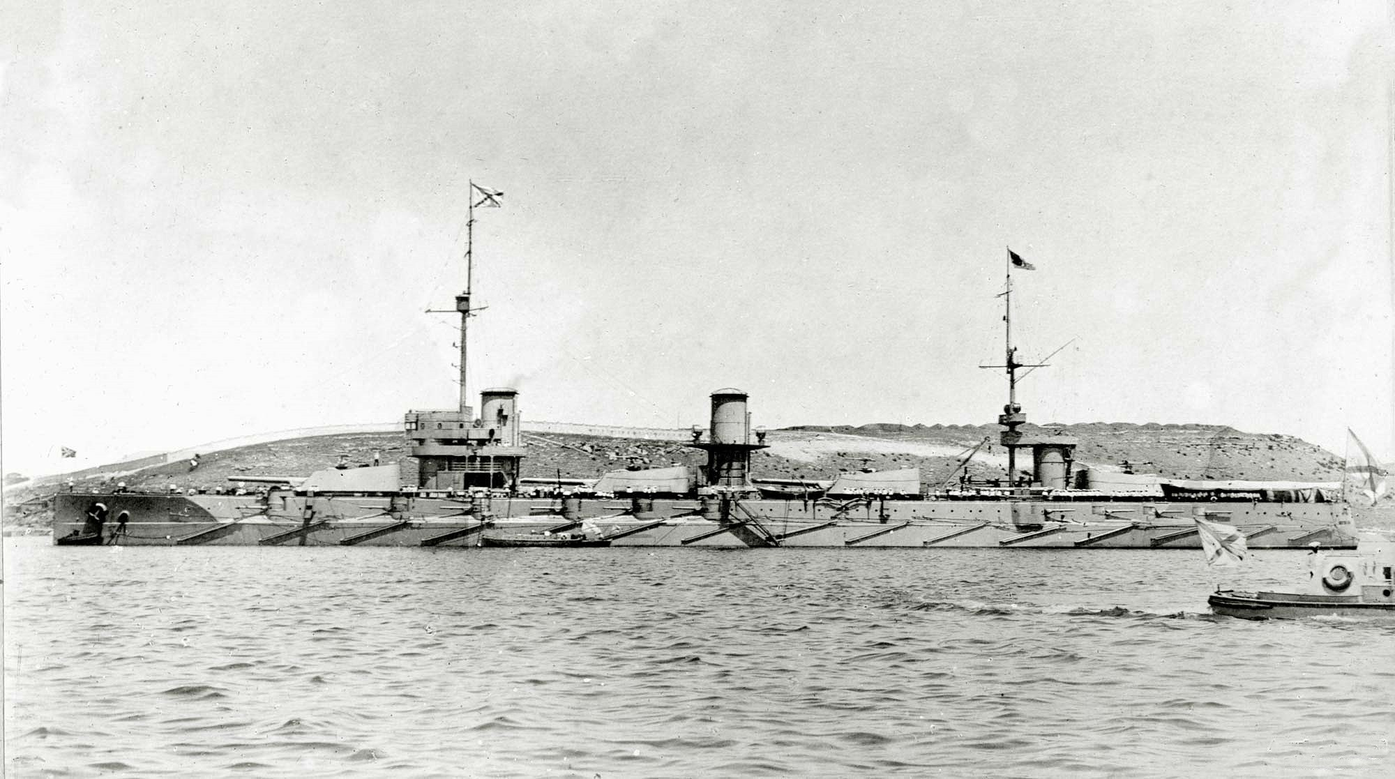 Battleship Imperatritsa Mariya returned in Sevastopol, 12 May 1916.